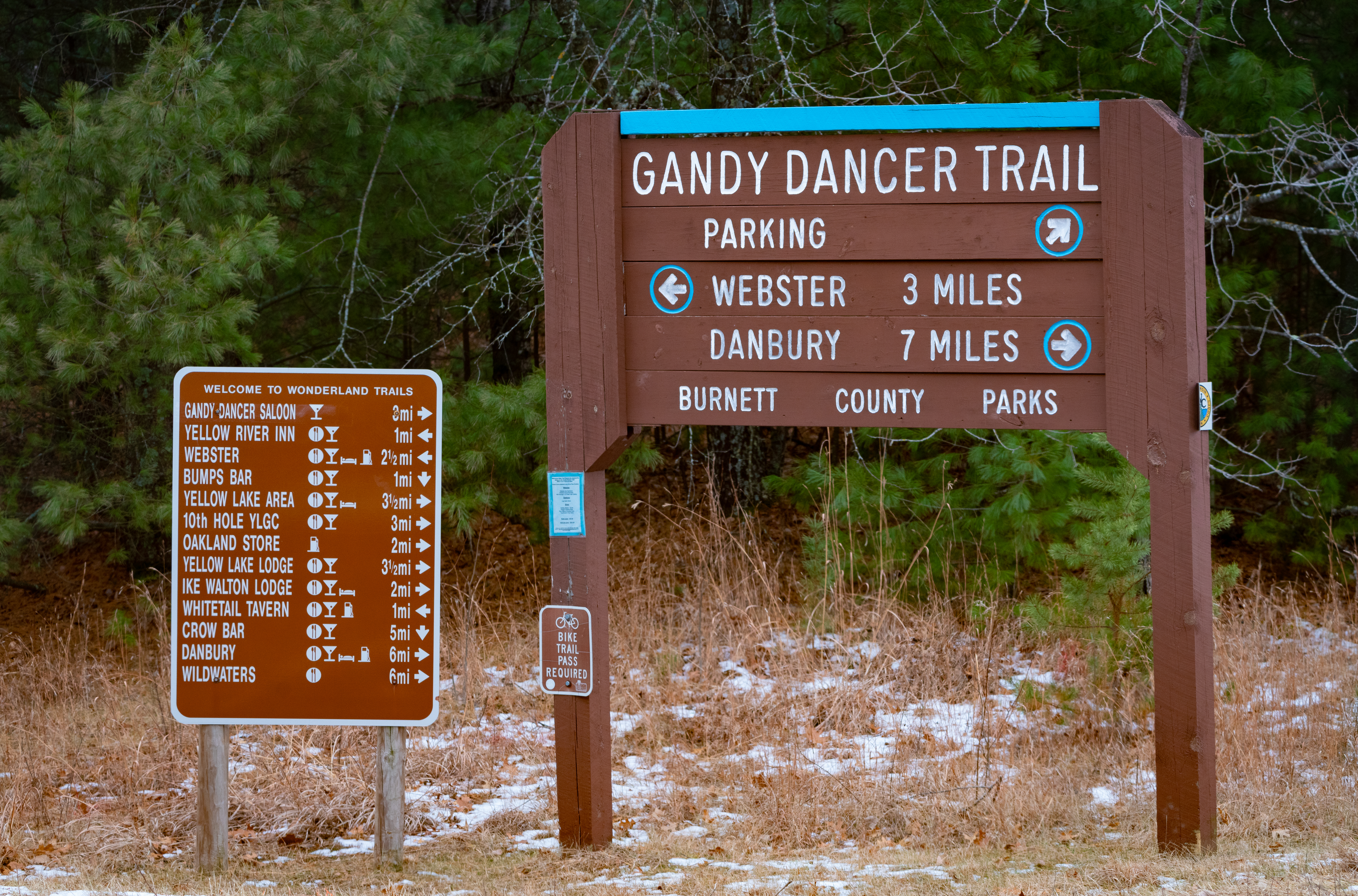 The Gandy Dancer Trail sign points toward Webster and Danbury, Wisconsin, and includes a "Welcome to Wonderland Trails" sign with distances and directional arrows to nearby restaurants, hotels, bars, and attractions.